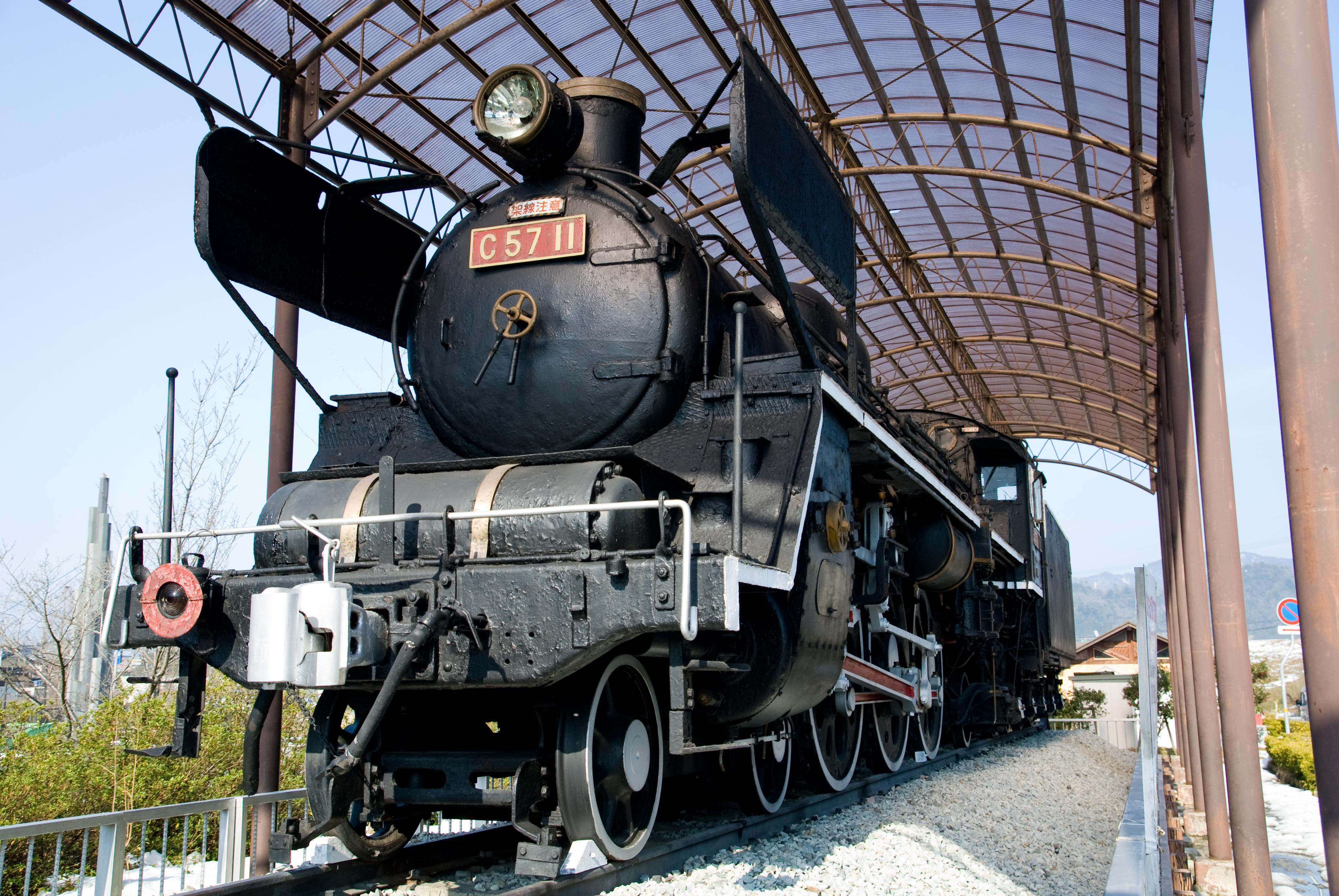 Steam locomotive has been exhibited here.